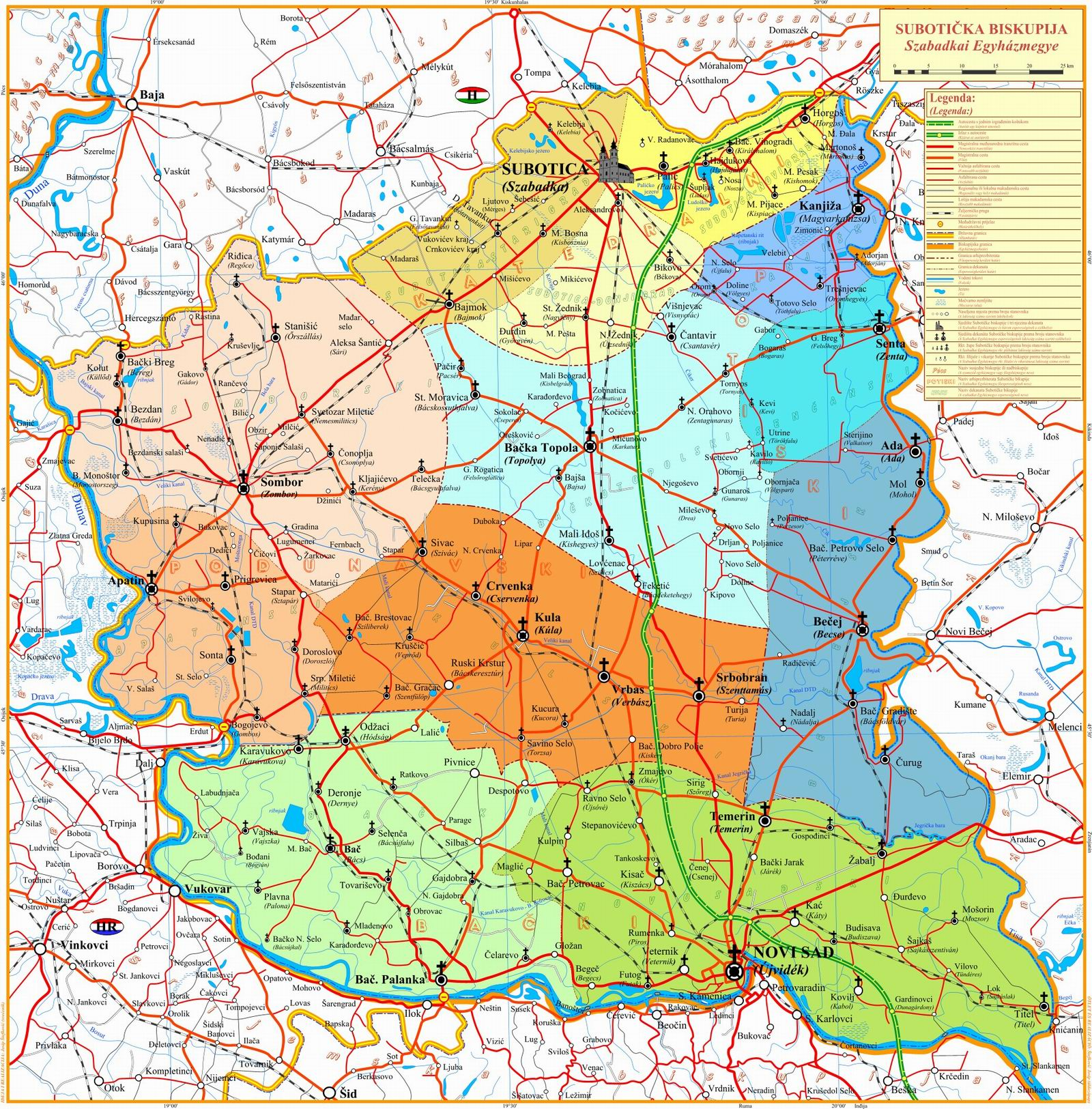 This is a map of the Diocese of Subotica. It is made by Rev. Josip Štefković.